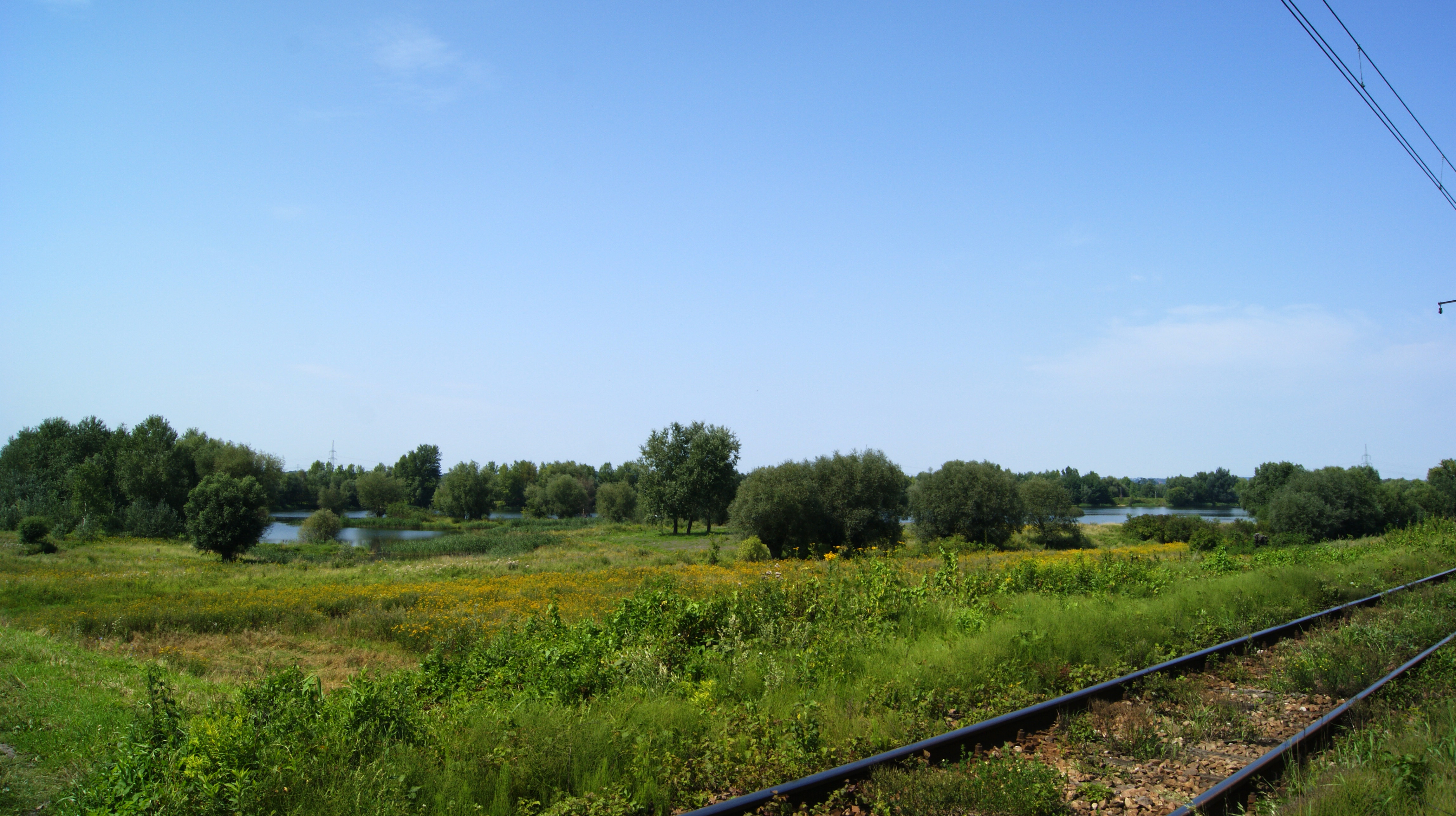 Przylasek Rusiecki Lakes (view from SE), Rzepakowa street, Nowa Huta, Krakow, Poland